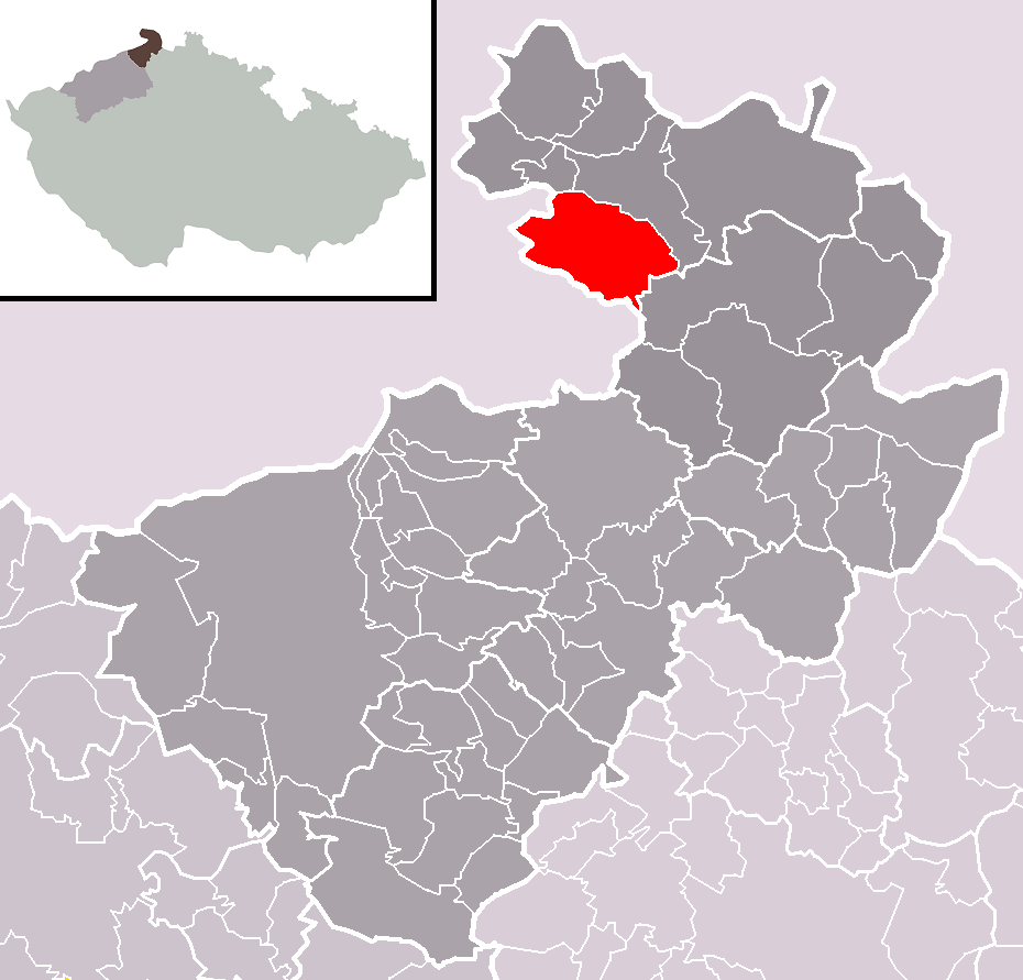 Location of Mikulášovice town within Děčín District and administrative area of Rumburk as a Municipality with Extended Competence.